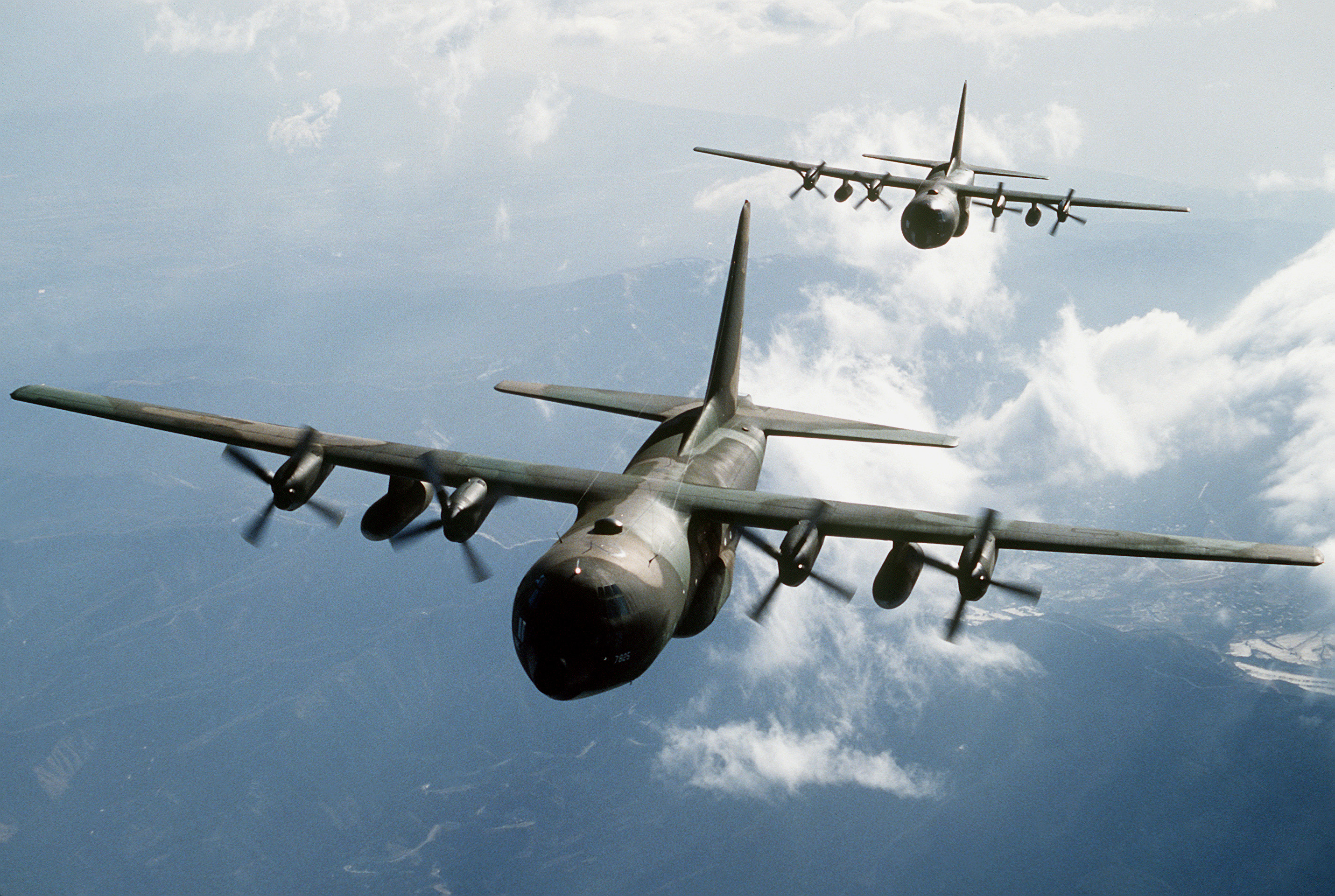 Two C-130E Hercules aircraft flying over mountainous terrain.